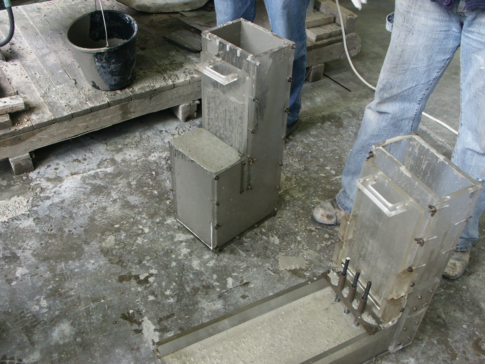 workability test for SCC concrete. the end of a U test